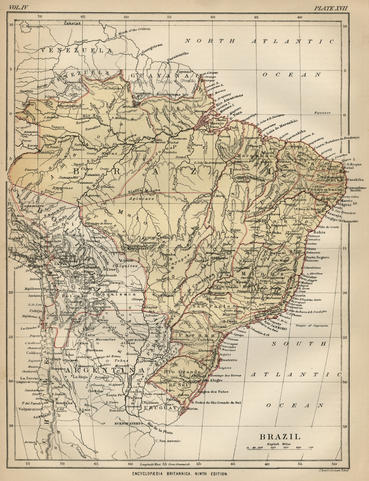 Map of the Empire of Brazil in 1889. It depicts political divisions (provinces), cities, towns, railroads, rivers, mountains and general topographic features.